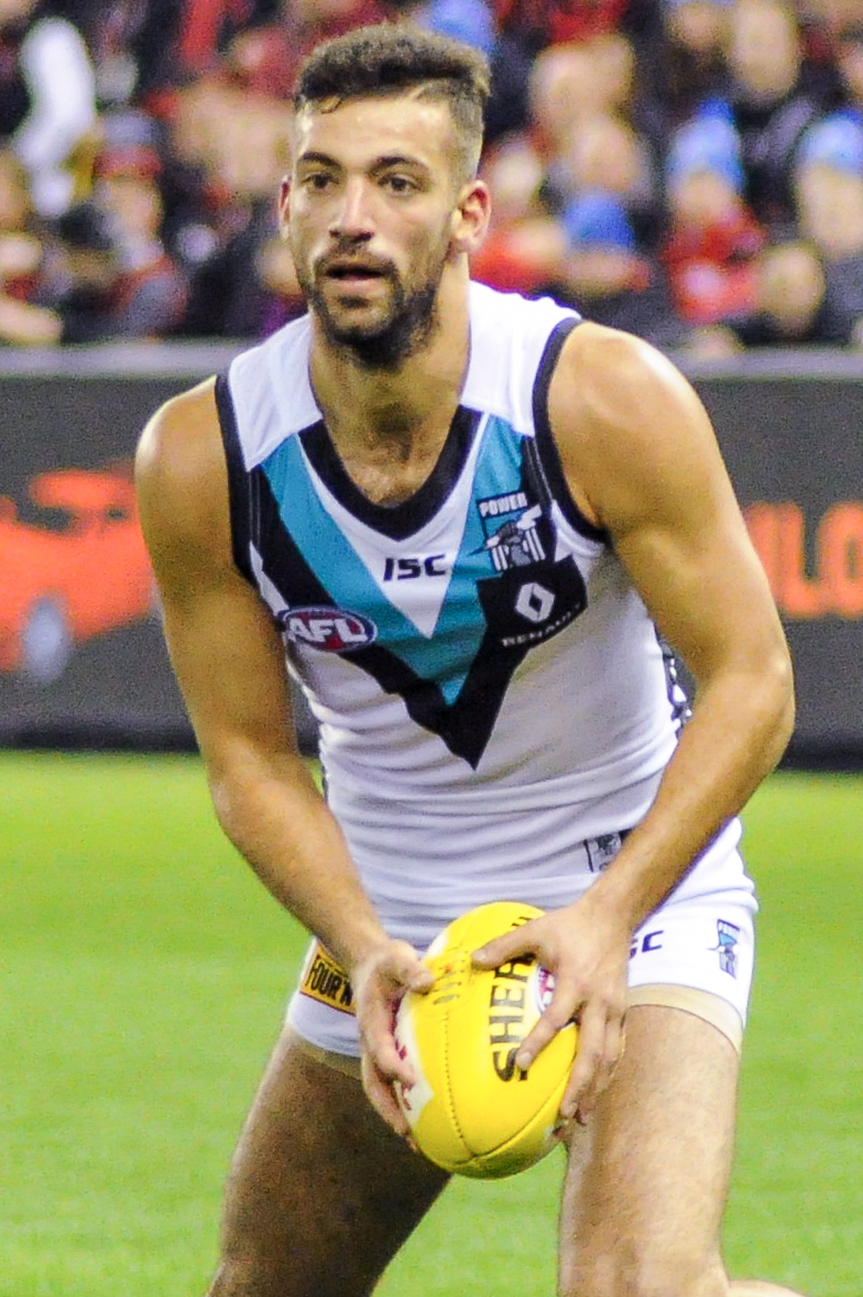 Jimmy Toumpas during the AFL round twelve match between Essendon and Port Adelaide on 10 June 2017 at Etihad Stadium in Melbourne, Victoria.